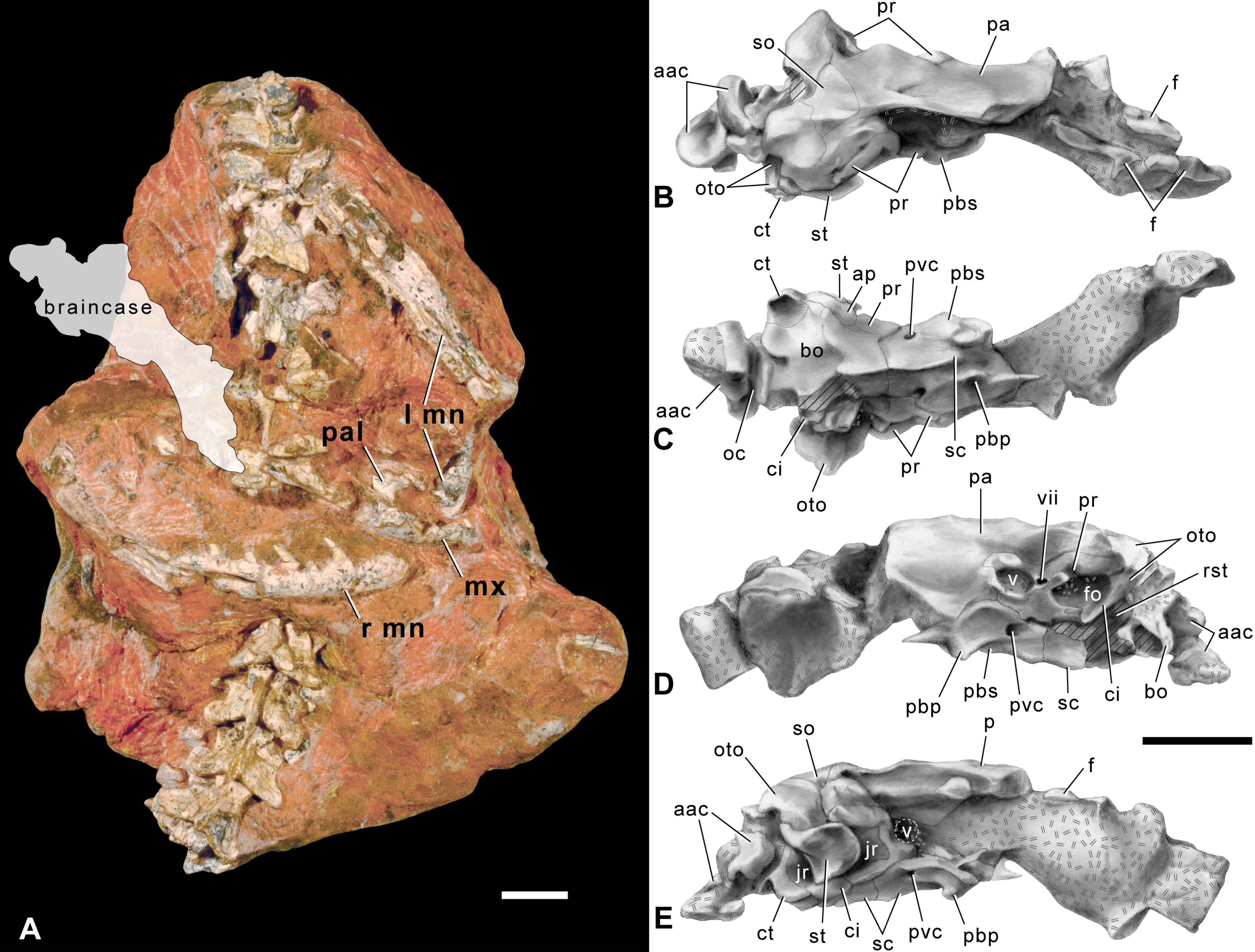 Skull of S. indicus, n. gen. n. sp. (A) Photograph of block GSI/GC/2903 showing the position of preserved cranial elements, which rest in near anatomical articulation upon a chain of vertebrae (anterior towards top). The braincase was removed from the block prior to final preparation, but its original position (gray tone) can be seen in Figure 1. (B–E) Half-tone drawings of the braincase in (B) dorsal; (C) ventral; (D) left lateral; and (E) right lateral views. aac, Atlas-axis complex; ap, accessory process of the crista interfenestralis; ci, crista interfenestralis; ct, crista tuberalis; f, frontal; fo, fenestra ovalis; jr, juxtastapedial recess; l, left; mn, mandible; mx, maxilla; oc, occipital condyle; oto, otooccipital; pa, parietal; pal, palatine; pbp, parabasisphenoid processes; pbs, parabasisphenoid; pr, prootic; pvc, posterior vidian canal; r, right; rst, recessus scalae tympani; sc, sagittal crest; so, supraoccipital; st, supratemporal; v–vii, openings for cranial nerves. Scale bars equal 2 cm.